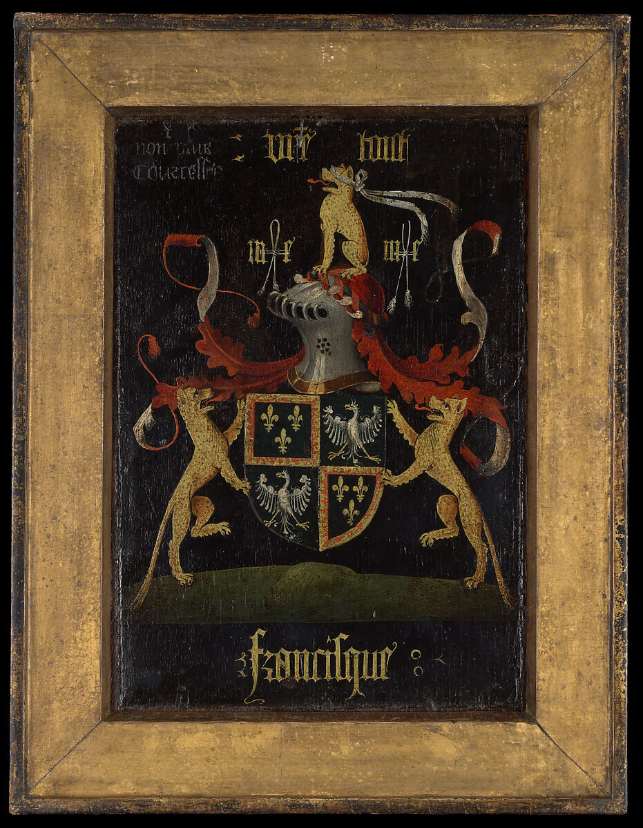 Coat of arms shown on the reverse of Francesco d'Este